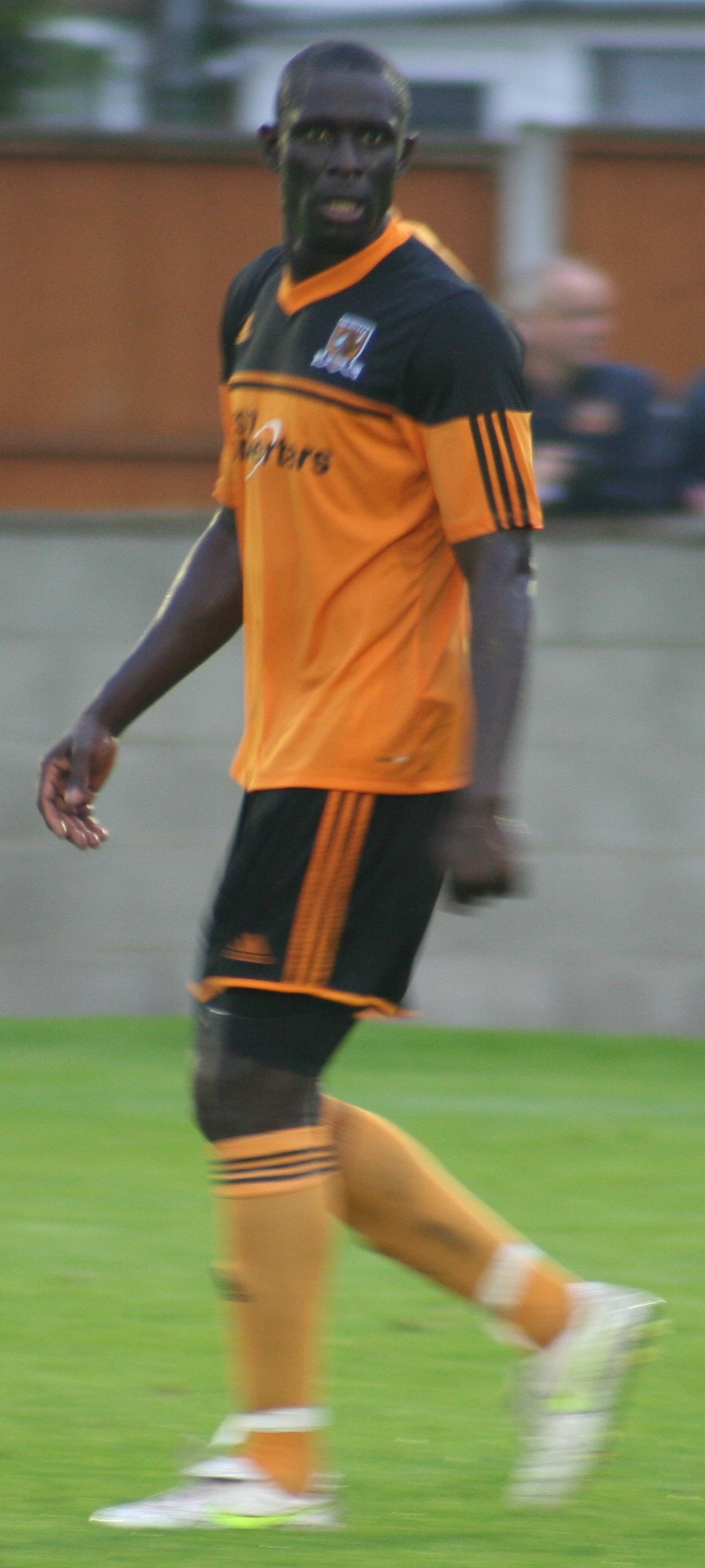 Seyi Olofinjana. Image cropped from original at flickr.